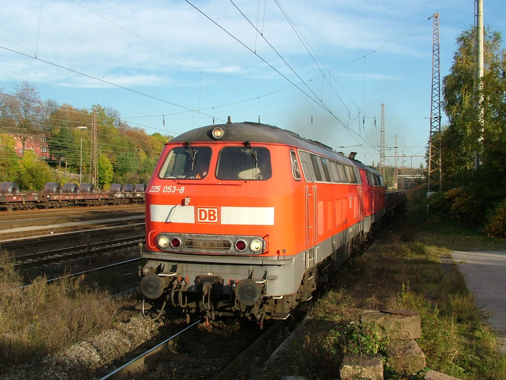 DB locos 225 053 and 225 092 (former class 215) with a steel train in Bochum, October 2005